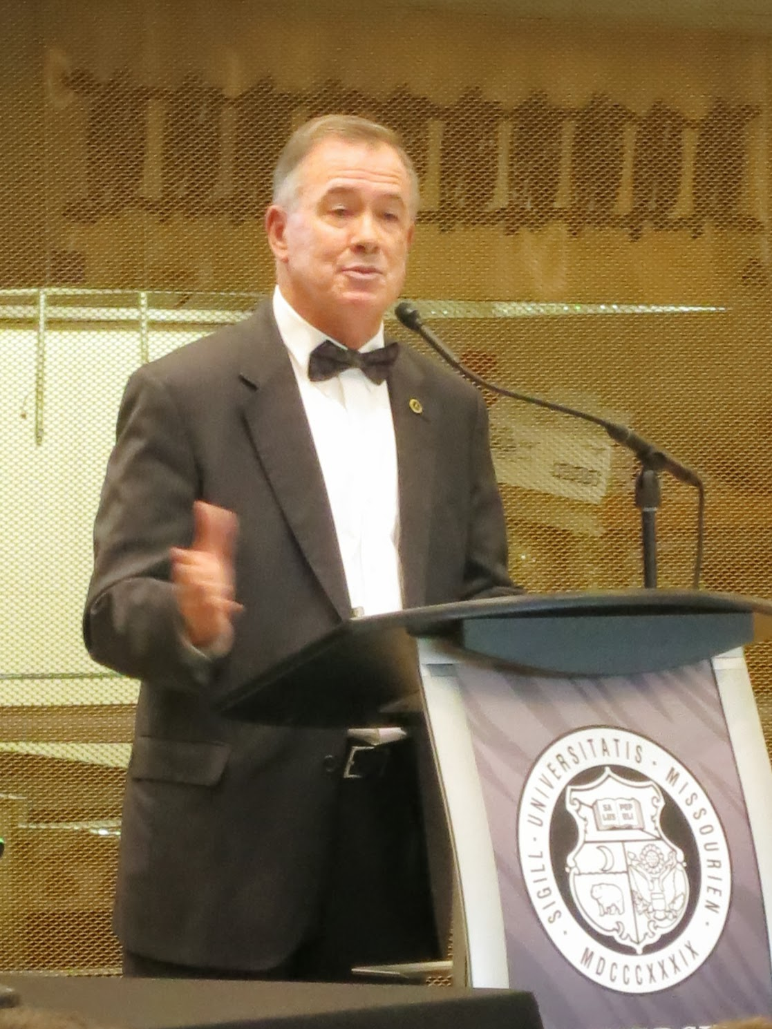 University of Missouri Chancellor Brady J. Deaton speaks against HB 253 at a forum at the University of Missouri Student Center.